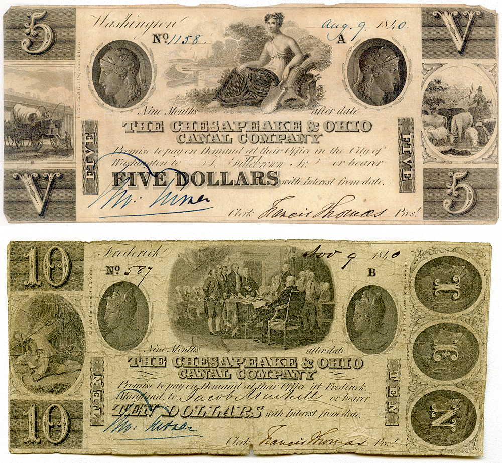 Notes (legal tender) from the Chesapeake and Ohio Canal Company.